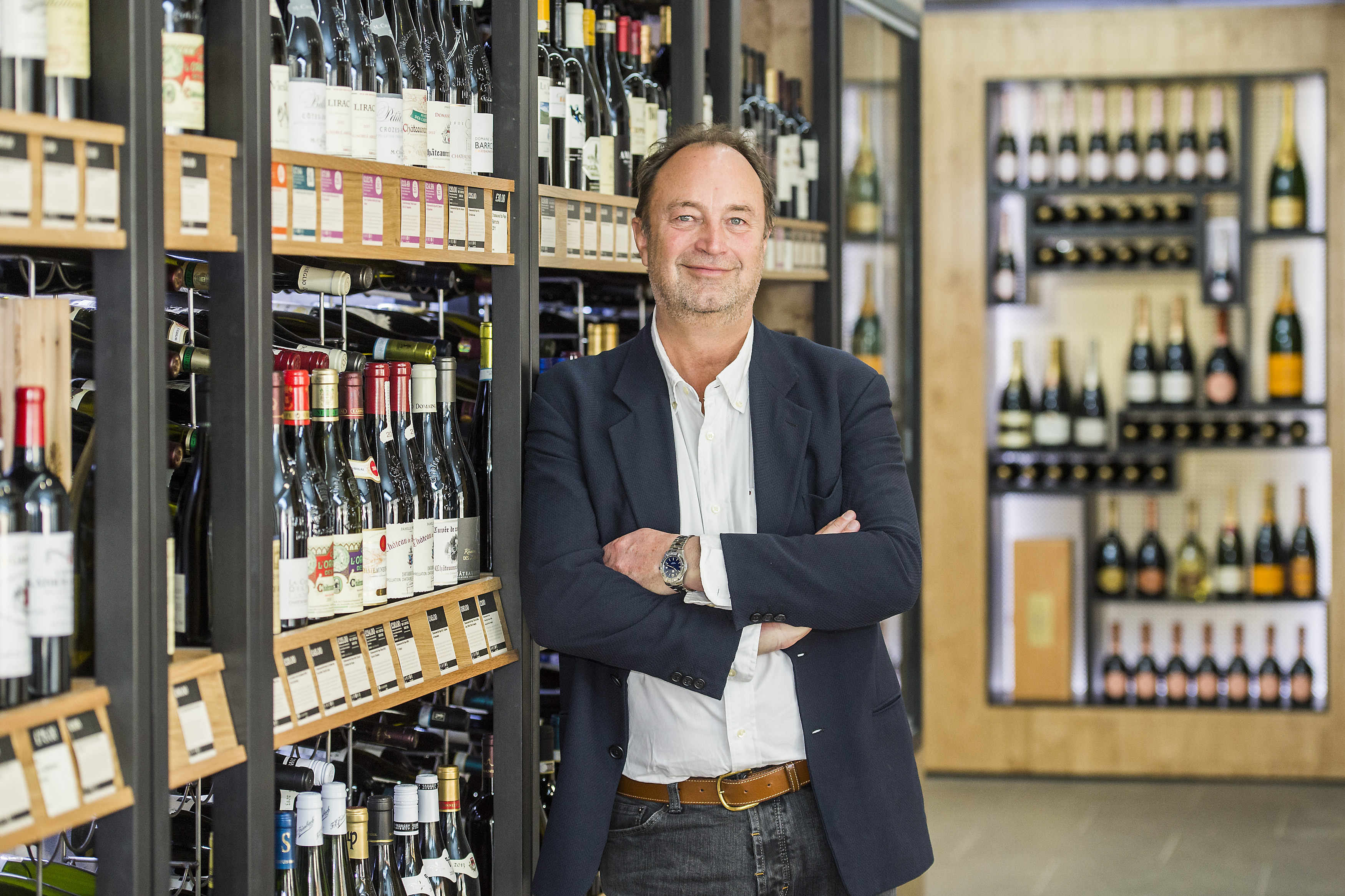 Rowan Gormley in a Majestic Wine store